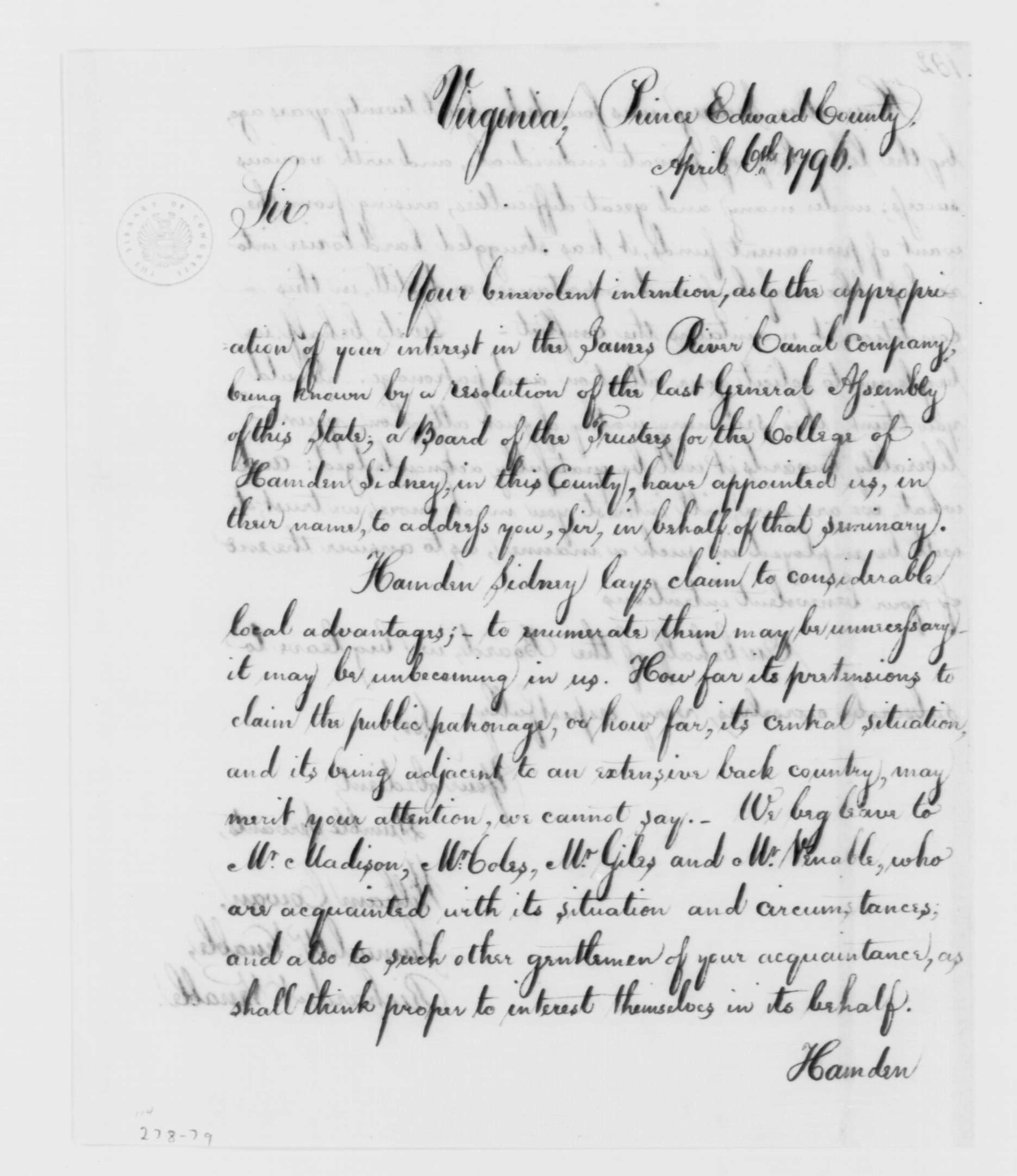 Letter from the board of Hampden-Sydney College, Prince Edward County, Virginia, to George Washington. Courtesy of the George Washington Papers, Series 4, Library of Congress, Washington, D.C.